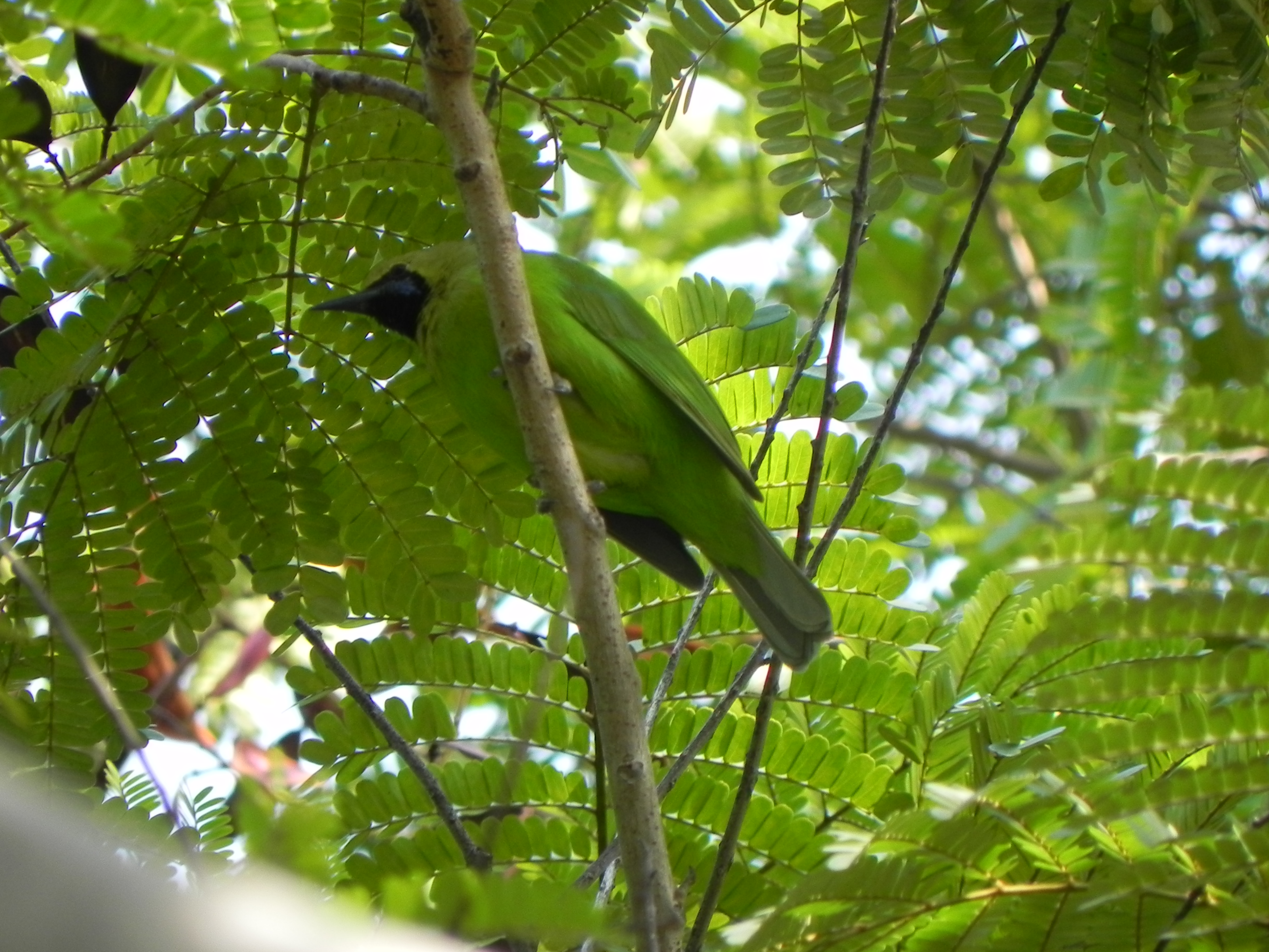 Greater Green Leafbird camouflage